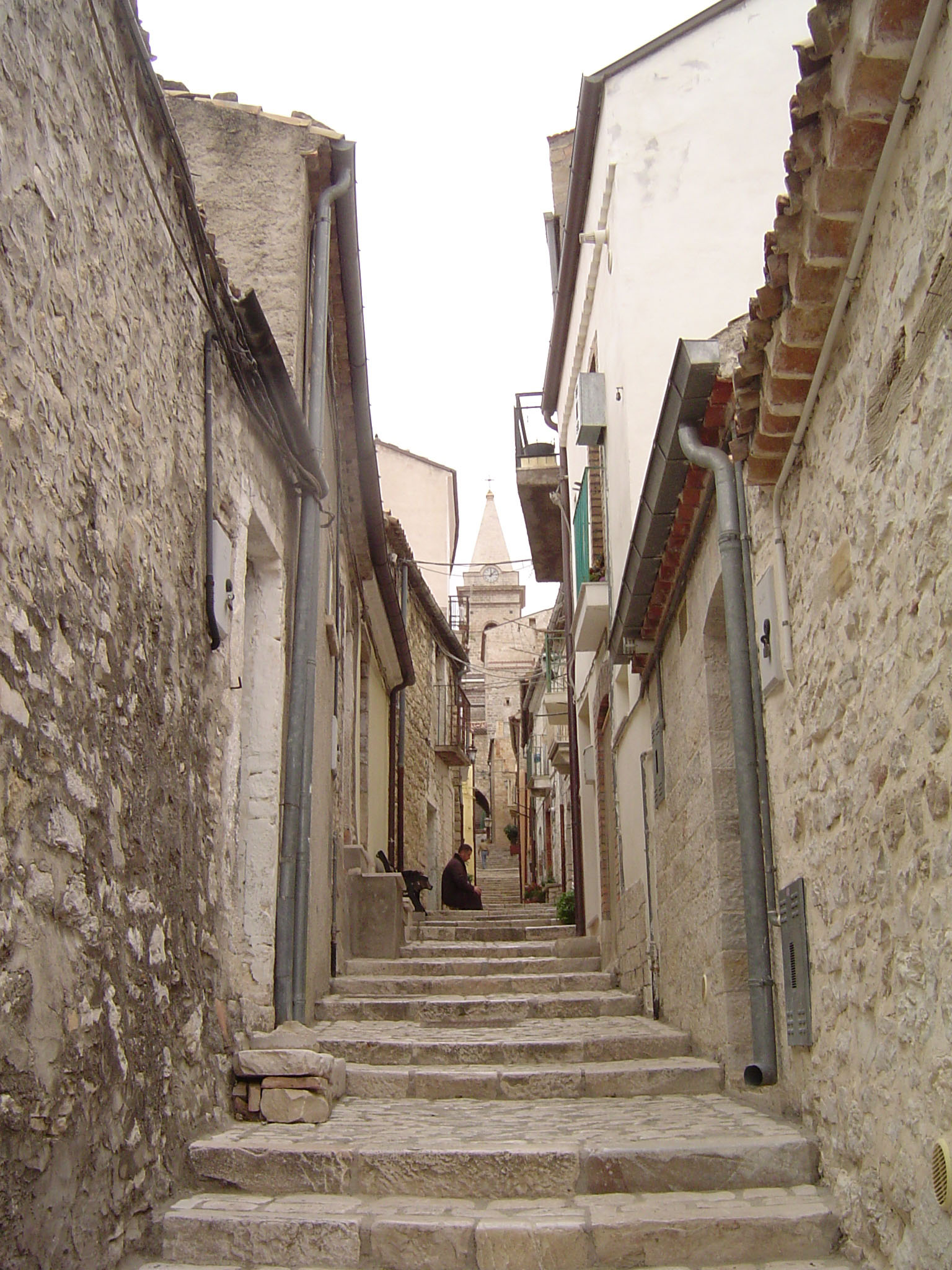 Ancient road in Guardialfiera.